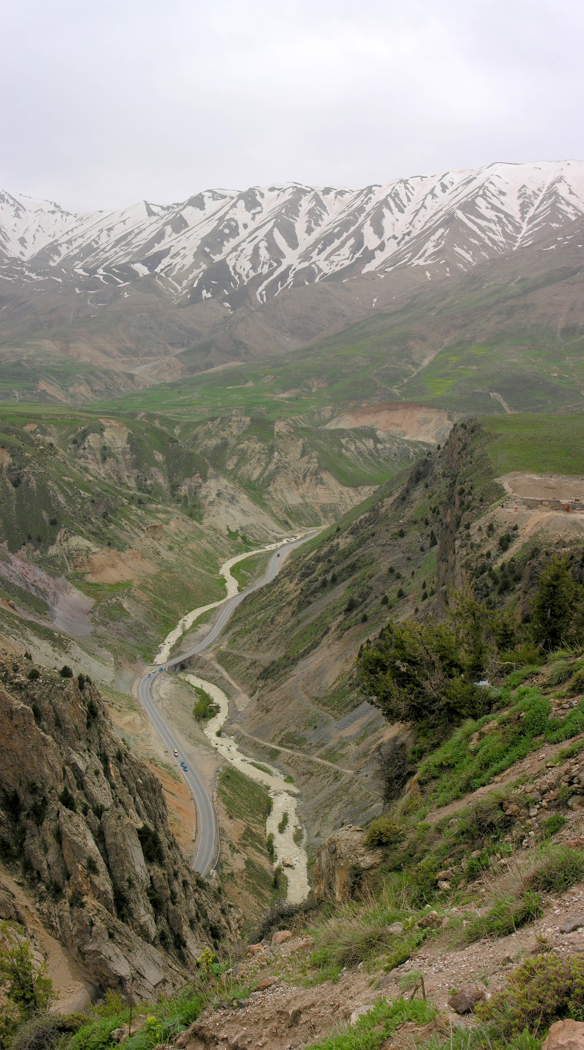 Iran, Road from Tehran to the Caspian Sea near Zeyar